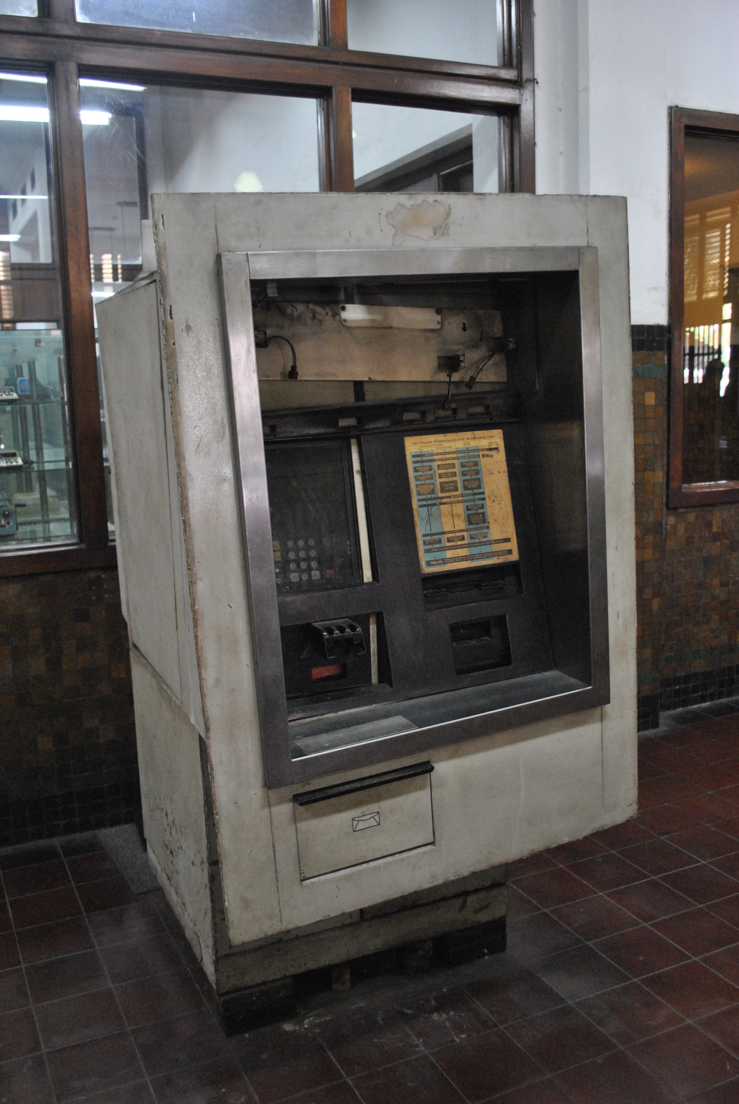 One of earliest ATM in Indonesia, in display at Museum Bank Mandiri, Jakarta. Then used by Bank Bumi Daya till early 1990s.